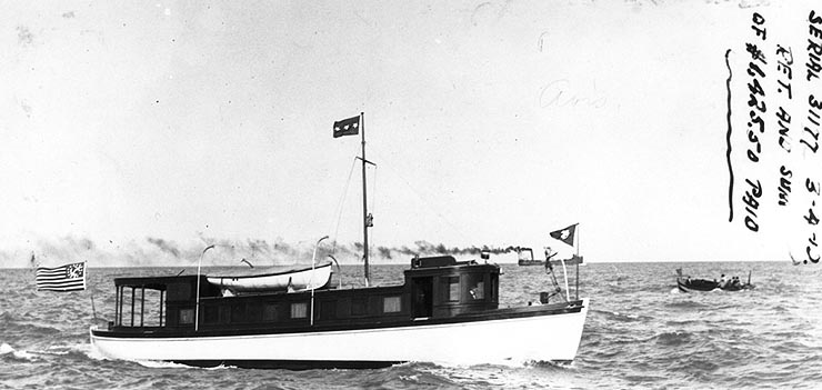 The civilian motorboat Avis, which later saw service as the United States Navy patrol boat USS Avis (SP-382), underway on the Great Lakes